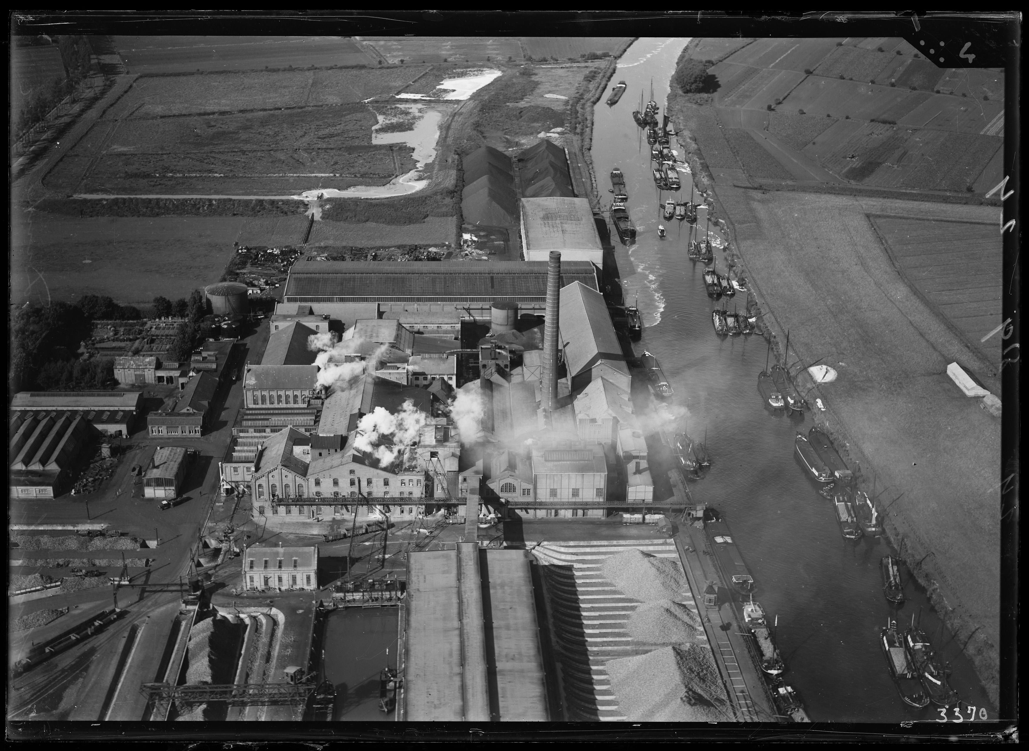 Aerial photograph of Dinteloord, The Netherlands